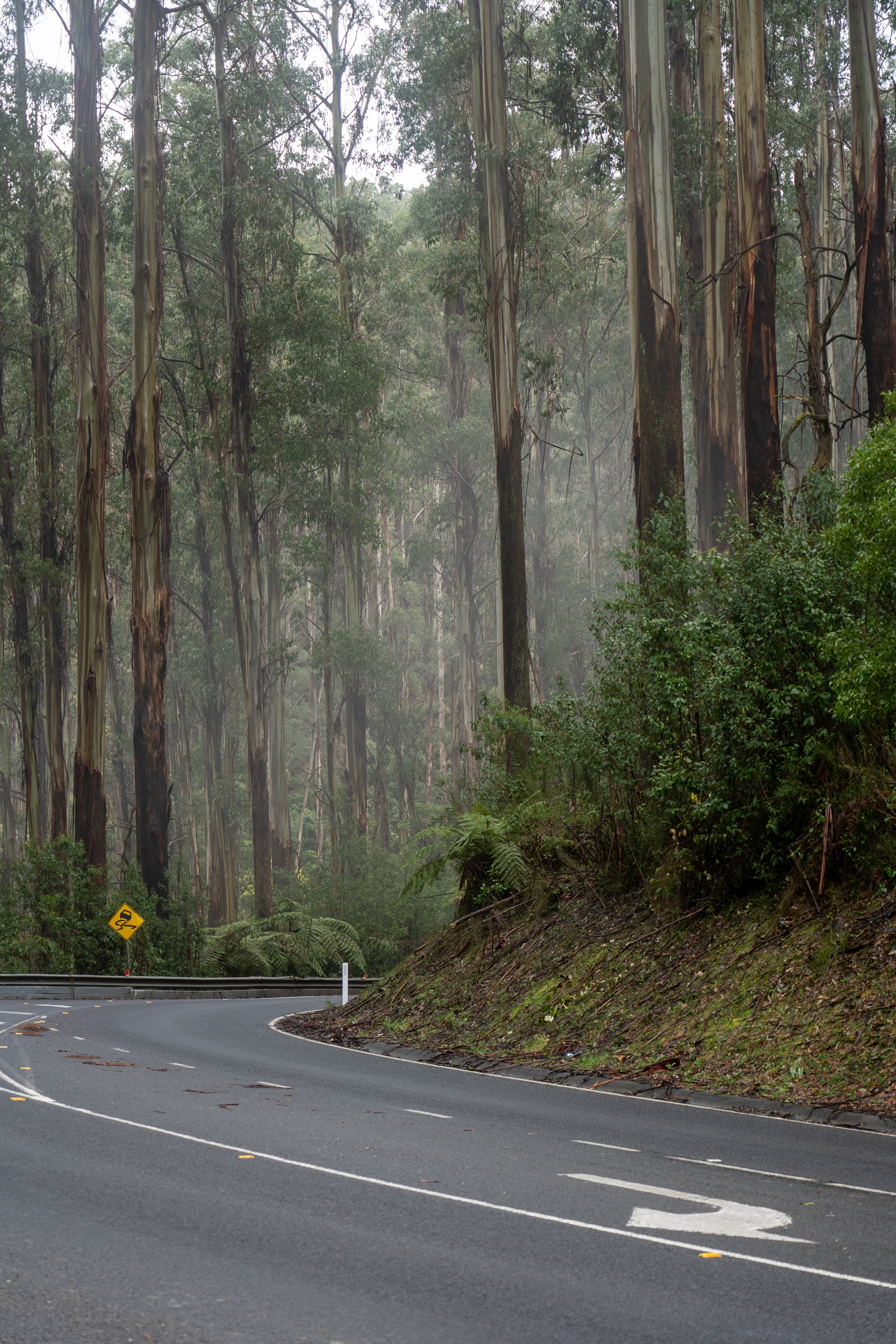 The Black Spur road, near the Dom Dom Saddle picnic area, facing west, with mist among the stands of Mountain Ash.